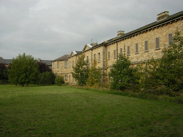 St.John's Hospital. The County Pauper Lunatic Asylum opened in 1852, after numerous name changes it became St.John's hospital in the 1960s. Closed in 1989, the site has been partly developed with modern housing but many of the buildings remain empty and semi-derelict.